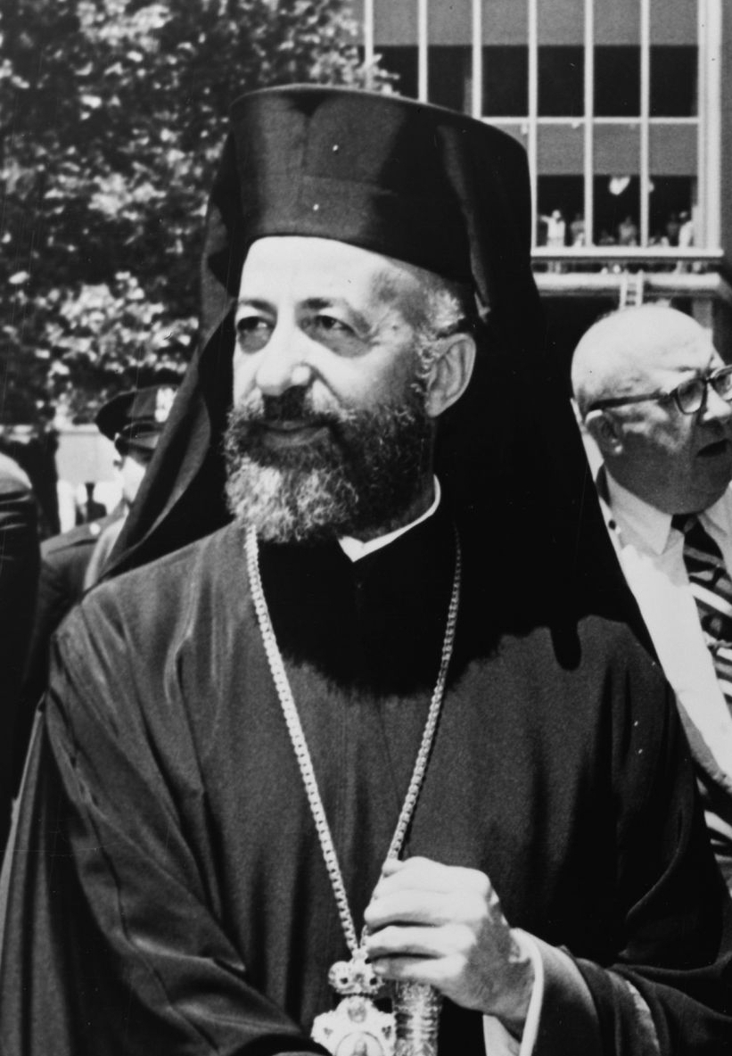 Archbishop Makarios of Cyprus. Mayor Wagner greets Archbishop Makarios at City Hall / World Telegram & Sun photo by O. Fernandez.